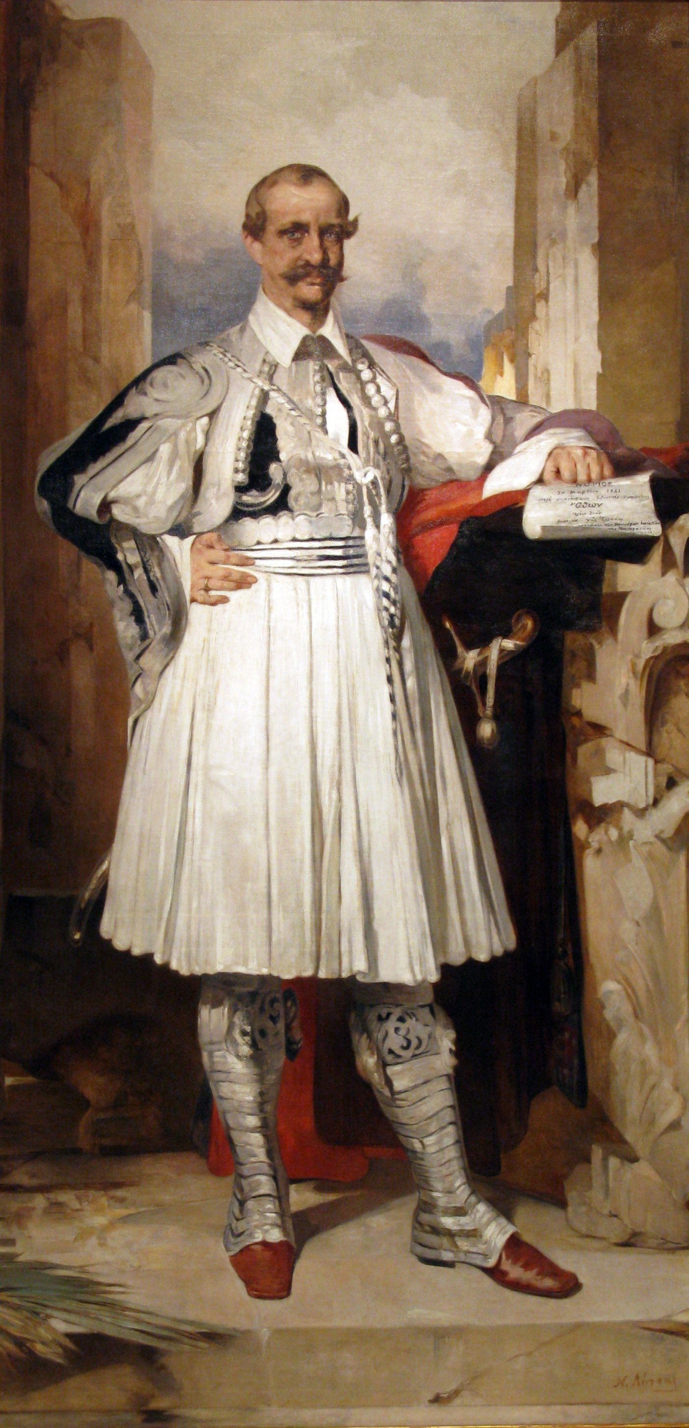 Otto, King of Greece with the Decree Founding the National Bank of Greecelabel QS:Len,"Otto, King of Greece with the Decree Founding the National Bank of Greece"